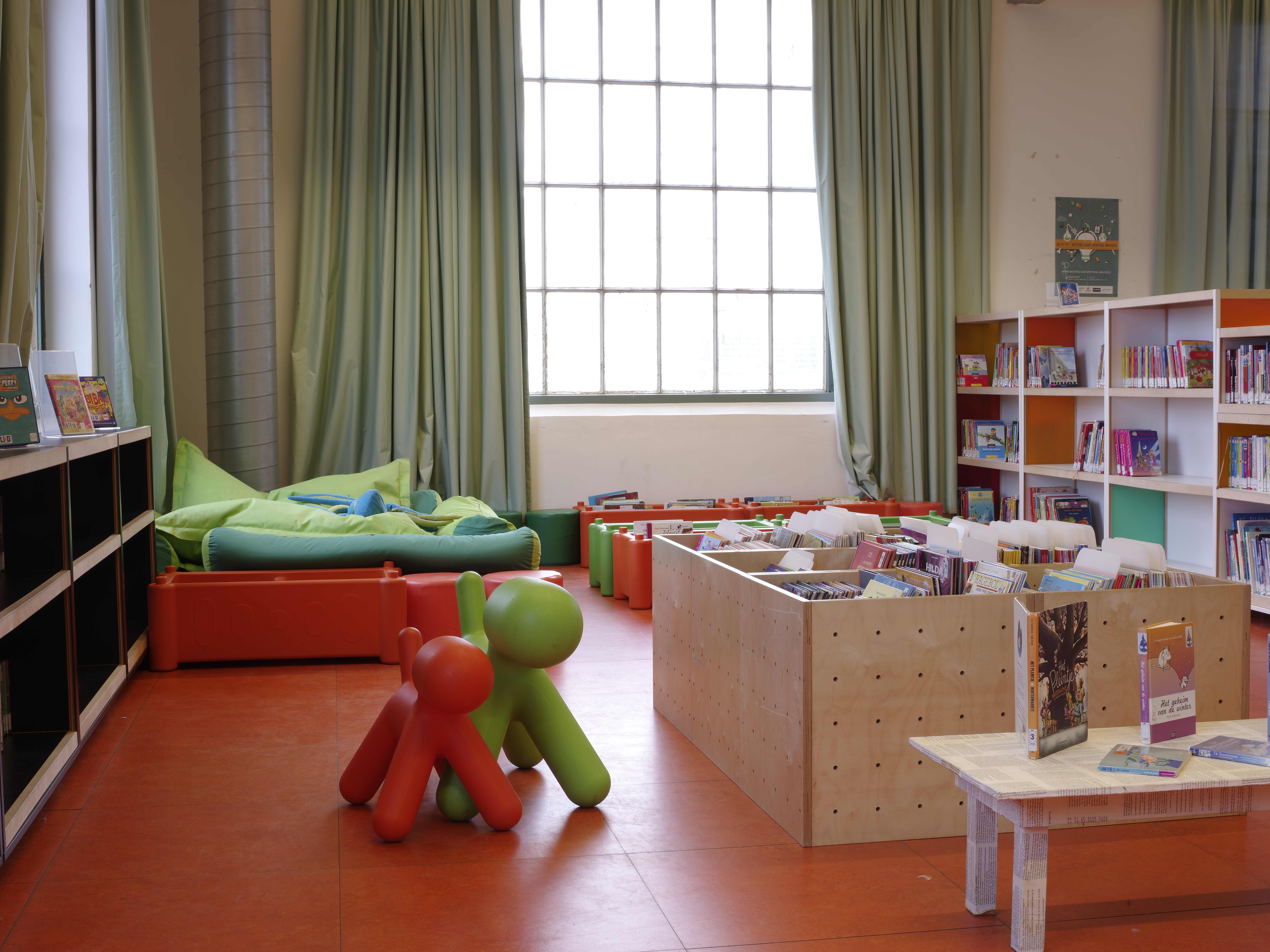 BLI:B, public library Vorst - Forest, at avenue Van Volxem 364 in 1190 Brussels (Forest).